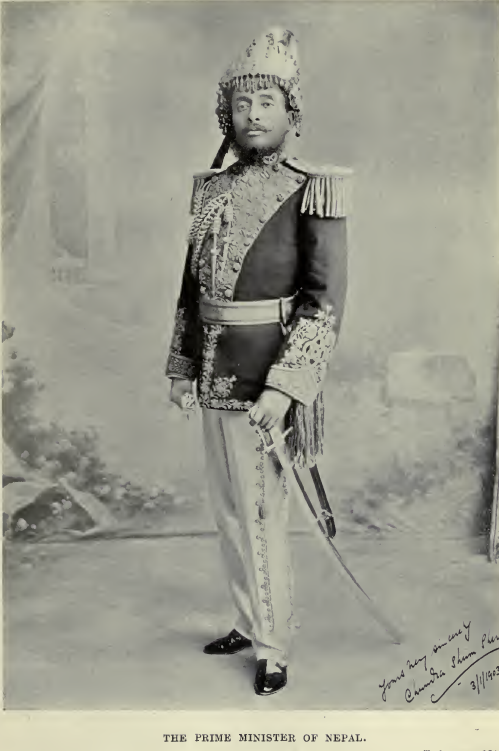 Photo of Nepali Prime Minister Chandra Shamsher Jung Bahadur Rana, c. 1910